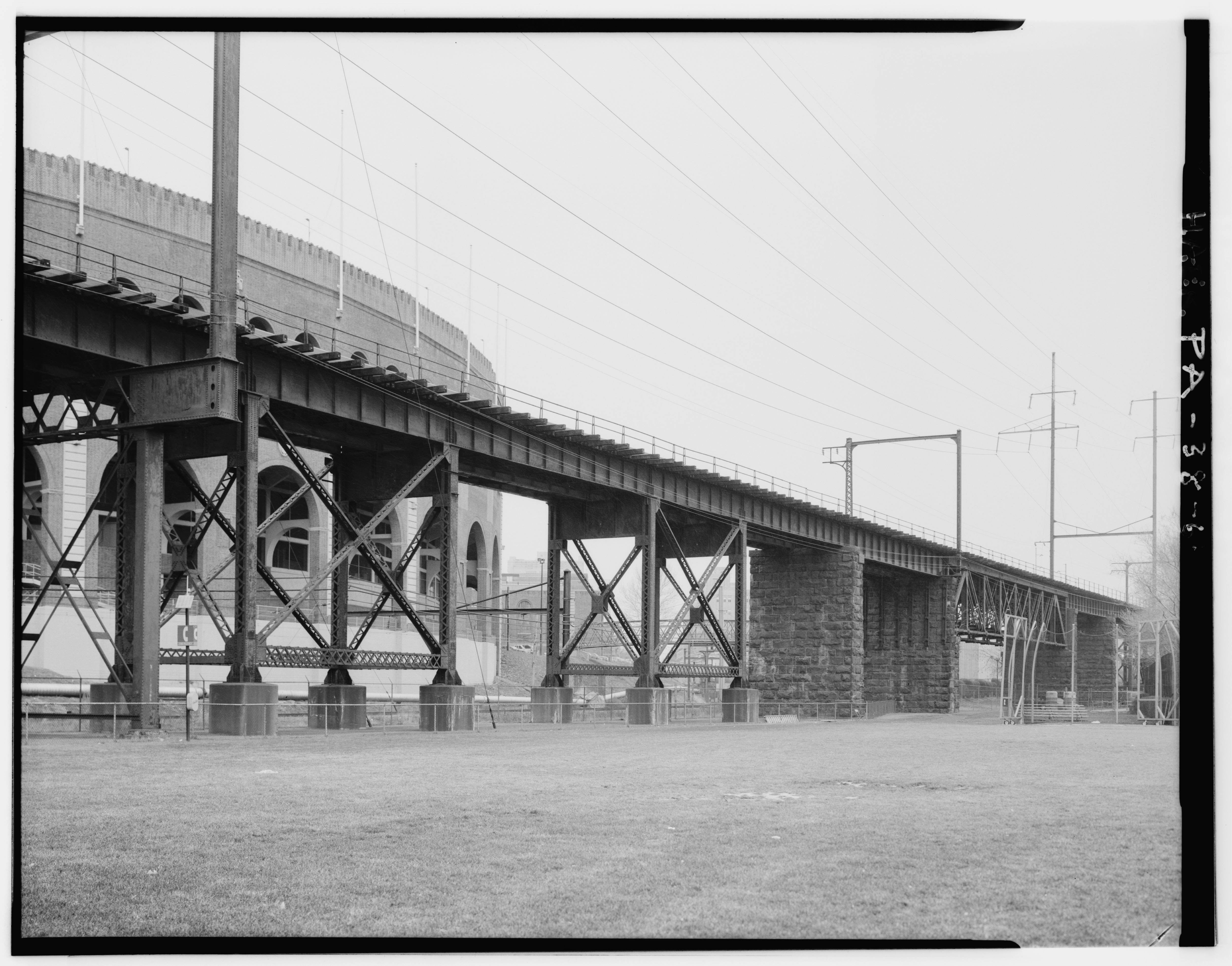 The West Philadelphia Elevated in Philadelphia, Pennsylvania. The bridge spans the track fields around 30th Street Station. The design took into account the tracks running on the ground, so that depending on local circumstances, steel supports, stone pillars and deck trusses were used.